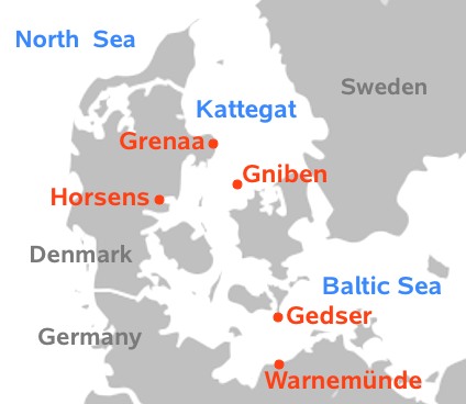 Map of places related to Danish long-distrance swimmer Jenny Kammersgaard. Names of towns in red, names og water in blue.